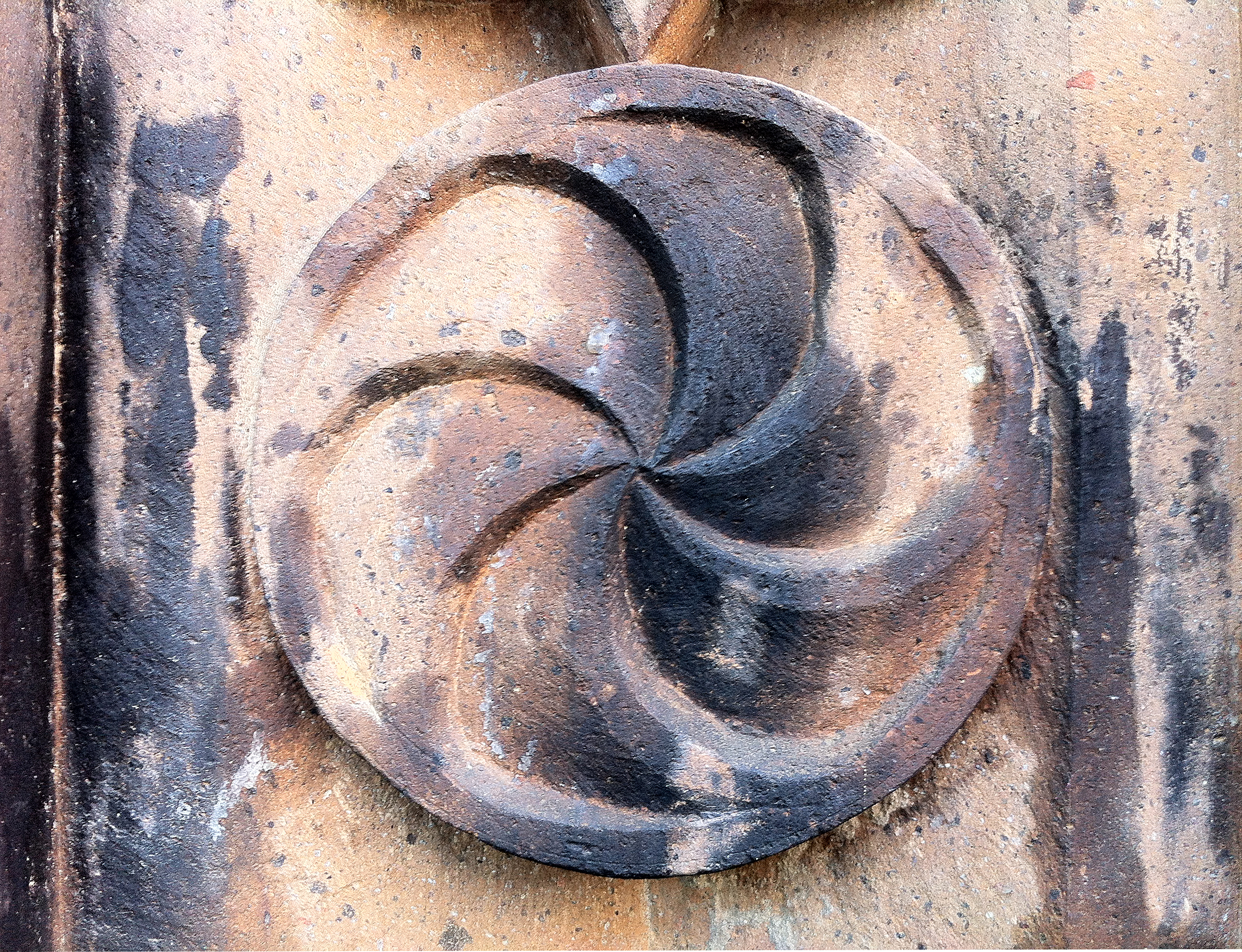 Armenian Eternity sign on the File:Khatchkar in Makaravank.jpg